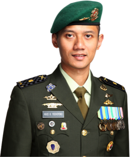 Mayor Infanteri Agus Harimurti Yudhoyono, M.Sc., MPA